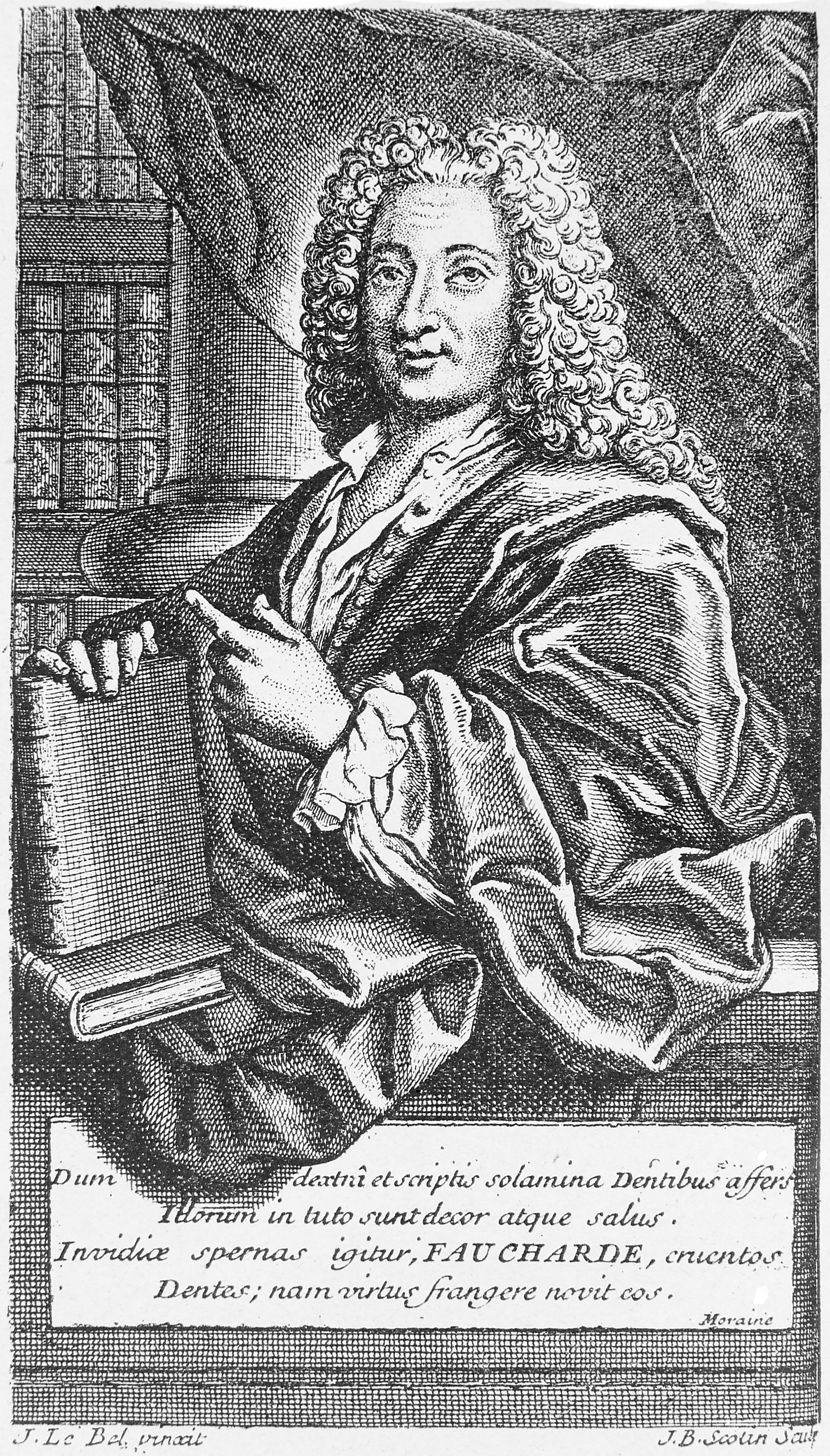 Pierre Fauchard (1678-1761), the great French dentist, by Scotin after Le Bel Rare Books Keywords: J. Le Bel; surgery, dental; Pierre Fauchard; dentistry, 18th century; Jean-Baptiste Scotin